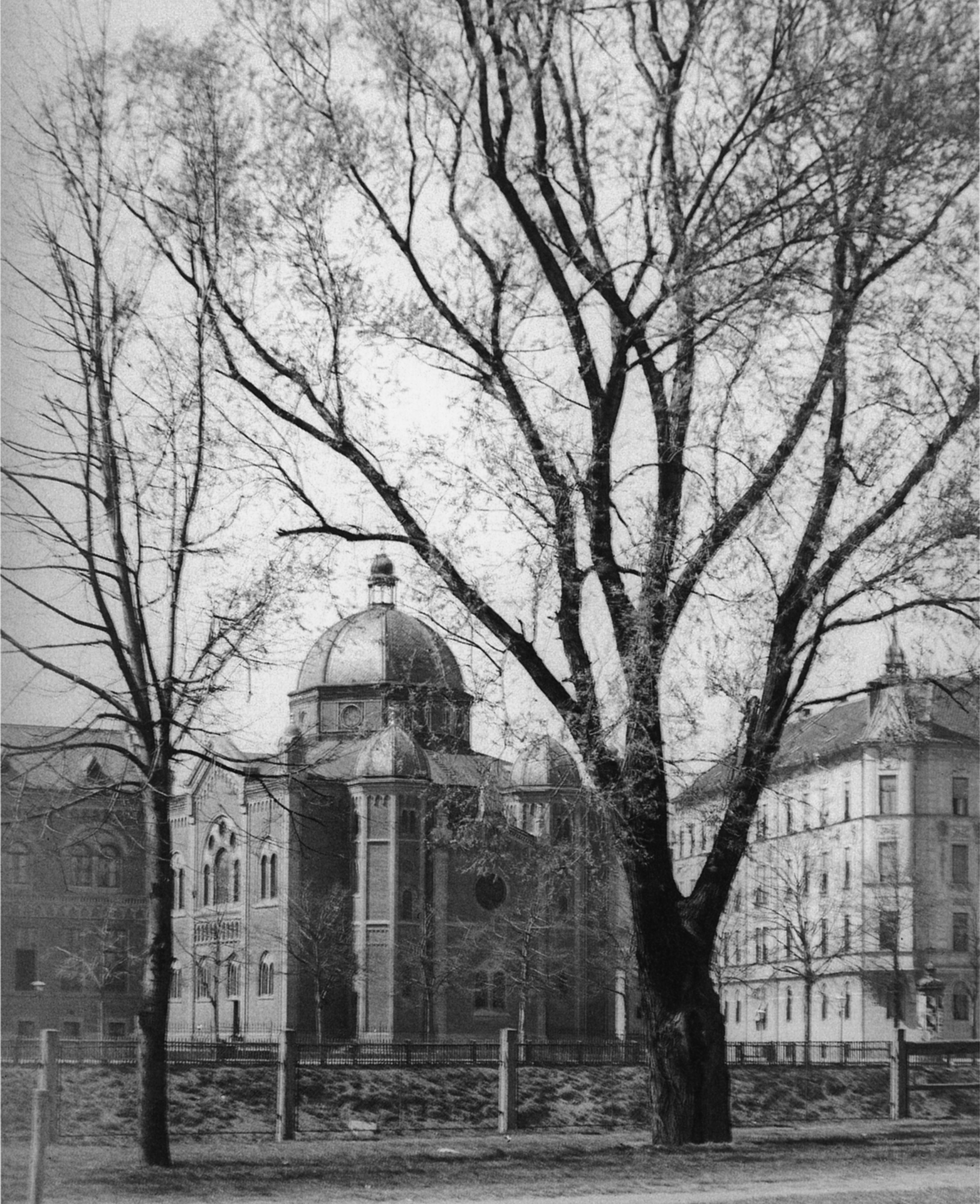 Petschar, Friedlmeier, Steiermark in alten Fotografien, Ueberreuther Verlag Wien. Scanprojekt Community Projektbudget 2012 This scan or this PDF-file was created within the GLAM-project Bookscanning, supported by Wikimedia Germany and Wikimedia Austria as a part of the community-project to capture books, documents and pictures which are not eligible to copyright or for which the copyright has expired. This document describes or depicts an object which is located in Austria today. Texts are written German language. Send requests for uncompressed scans to Hubertl. This work is in the public domain in its country of origin and other countries and areas where the copyright term is the author's life plus 100 years or fewer. You must also include a United States public domain tag to indicate why this work is in the public domain in the United States. This file has been identified as being free of known restrictions under copyright law, including all related and neighboring rights.